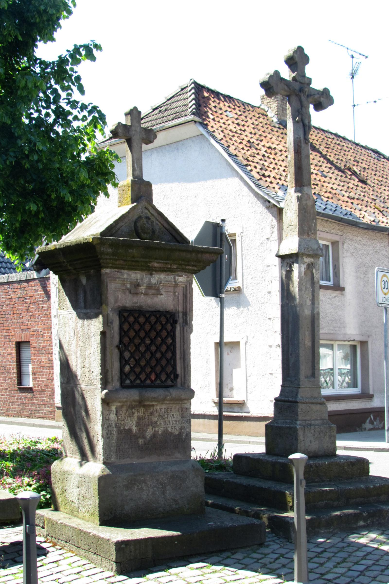 This is a photograph of an architectural monument.It is on the list of cultural monuments of Korschenbroich